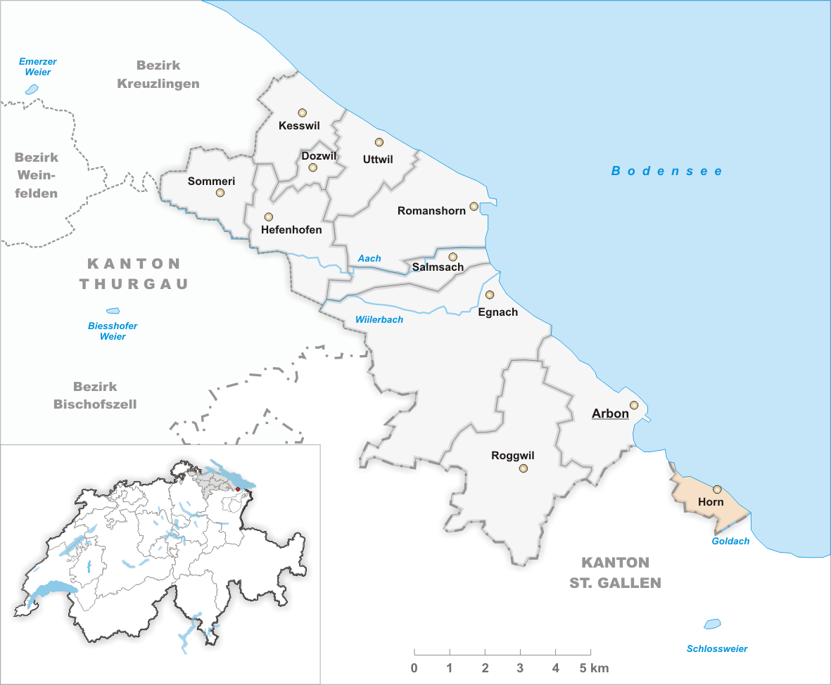 Municipality Horn